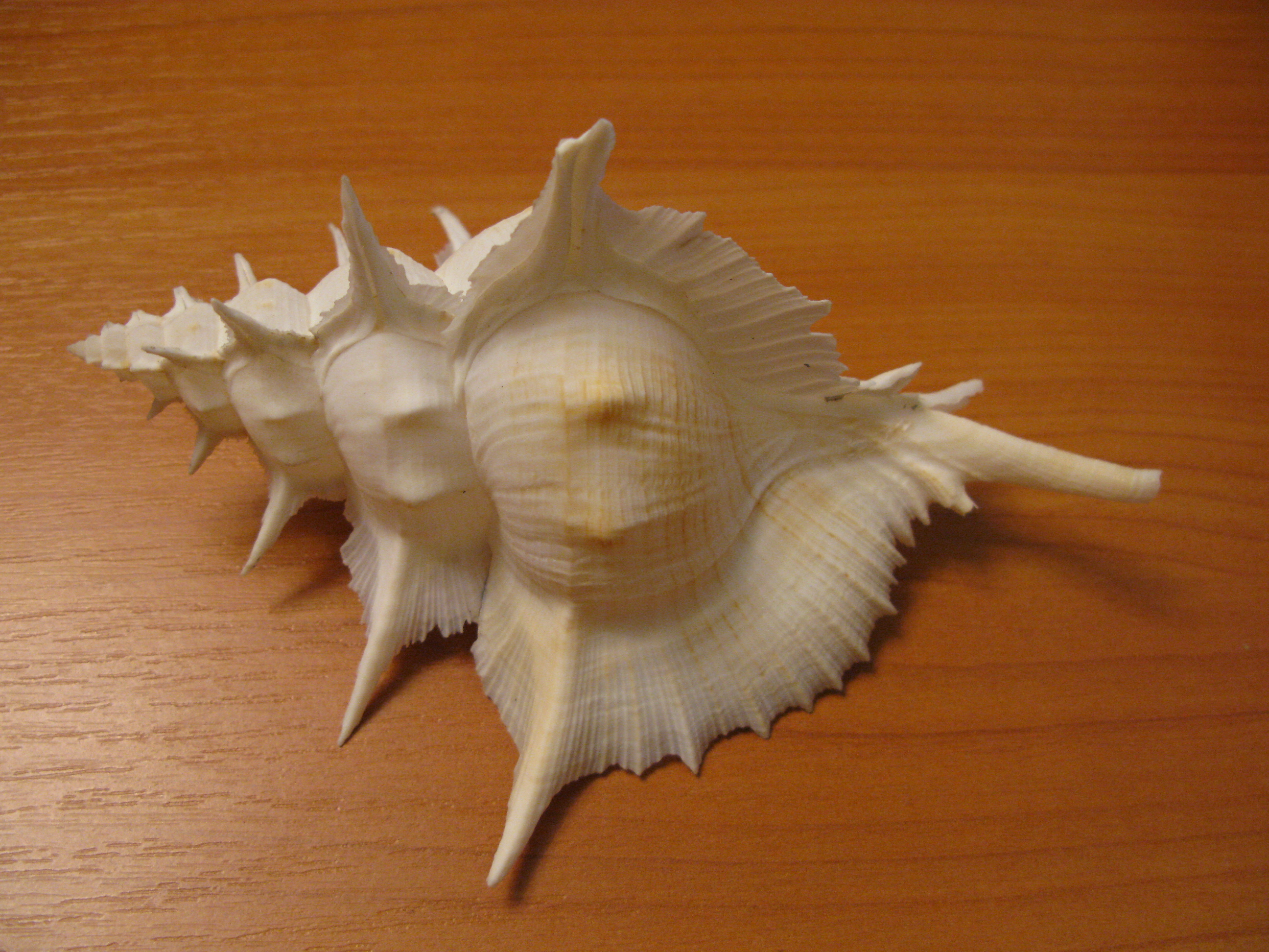 Chicoreus alabaster = Siratus alabaster = Murex alabaster